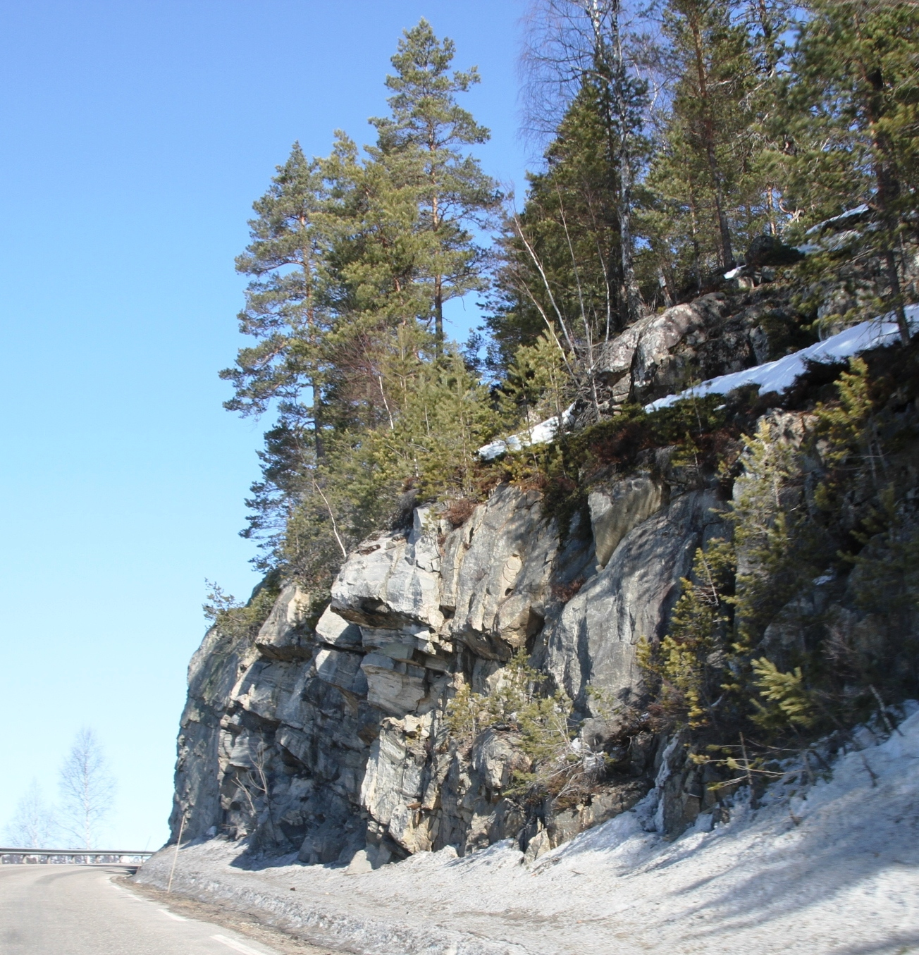 Image from along the highway 41 through the central parts of Froland municipality, Aust-Agder county (Norway)